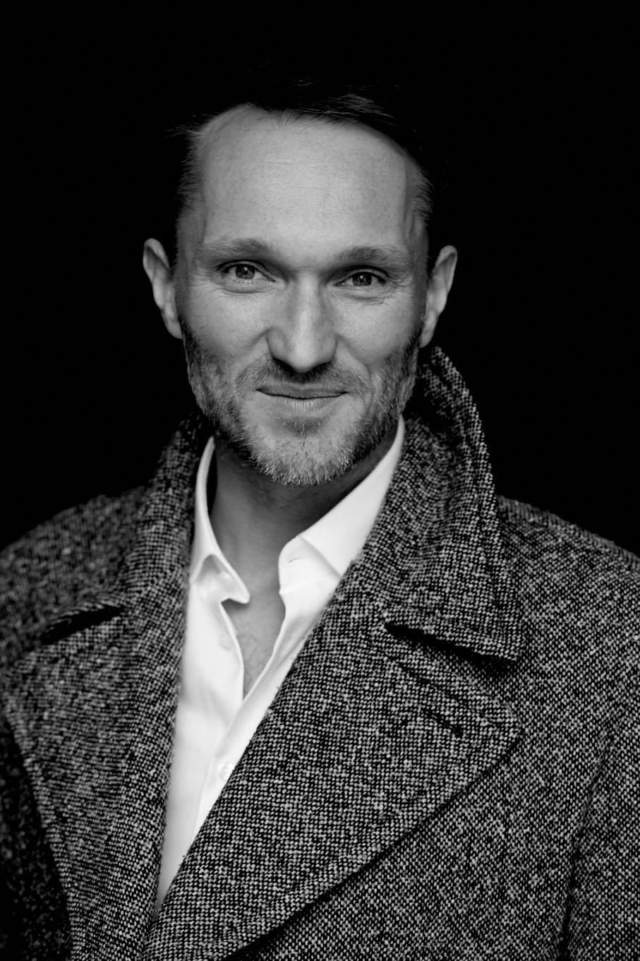 actor